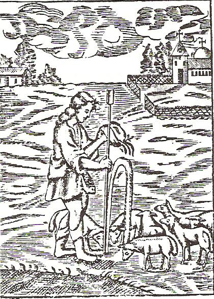 Oldest illustration of sacred Gezelinus of Schlebusch, 1729